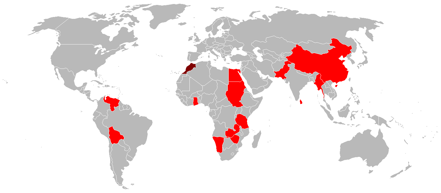 Operators of the Hongdu JL-8/K-8. Current operators in red; former operators in dark red. Own work, derivative of File:BlankMap-World.png.